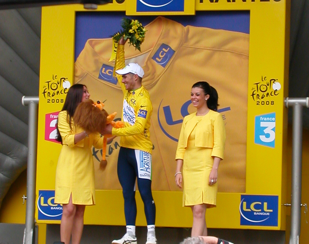 Romain Feillu puts on the yellow jersey at the arrival of the Tour de France 2008's 3rd stage in Nantes